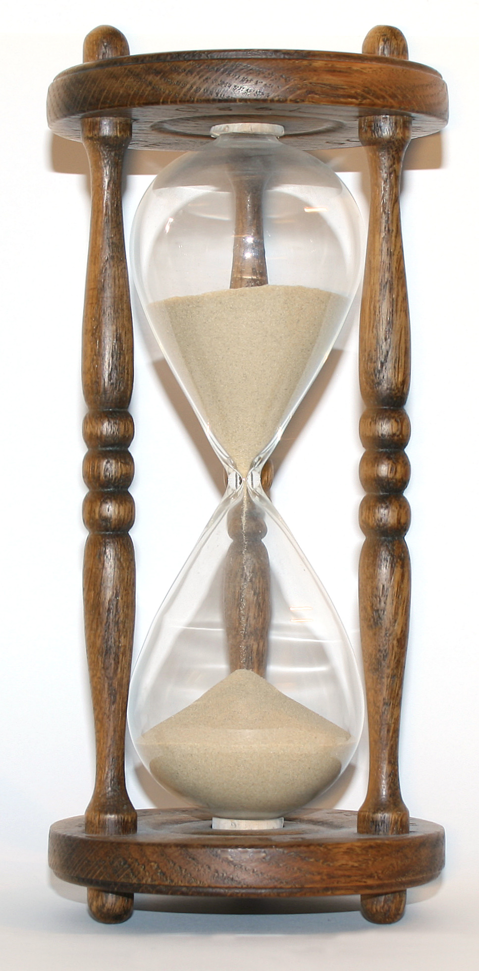 Alternative version of image:Wooden hourglass 2.jpg. Wooden hourglass. Total height:25 cm. Wooden disk diameter: 11.5 cm. Running time of the hourglass: 1 hour. Hourglass in other languages: 'timglas' (Swedish), 'sanduhr' (German), 'sablier' (French), 'reloj de arena' (Spanish), 'zandloper' (Dutch), 'klepsydra' (Polish), 'přesýpací hodiny' (Czech), 'ampulheta' (Portuguese).